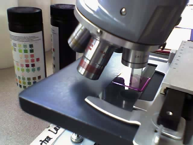 Microscopio con un portaobjetos teñido.